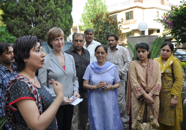 From the Exhibit "In the Name of Honour"